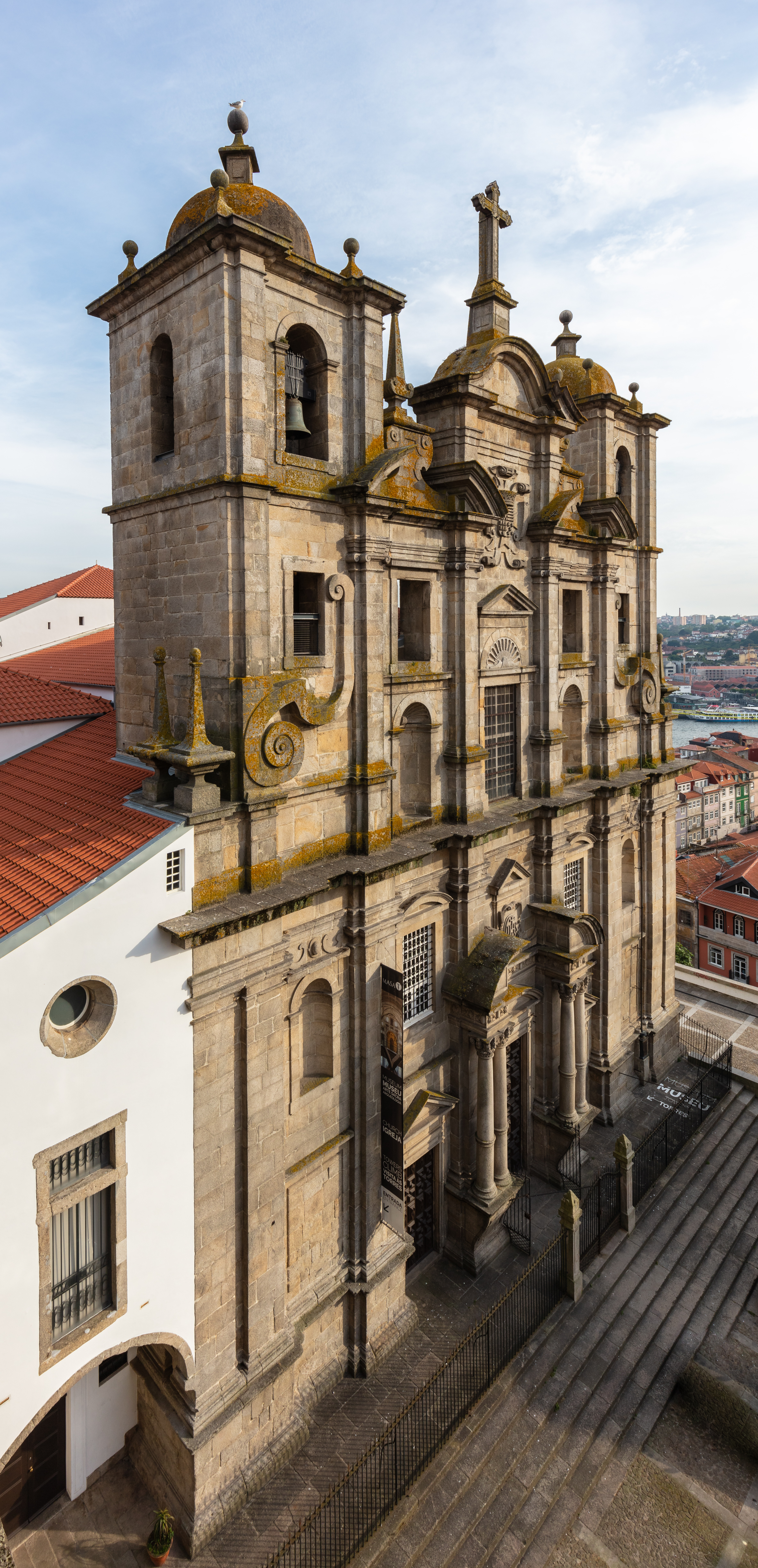 Convento dos Grilos, Porto, Portugal